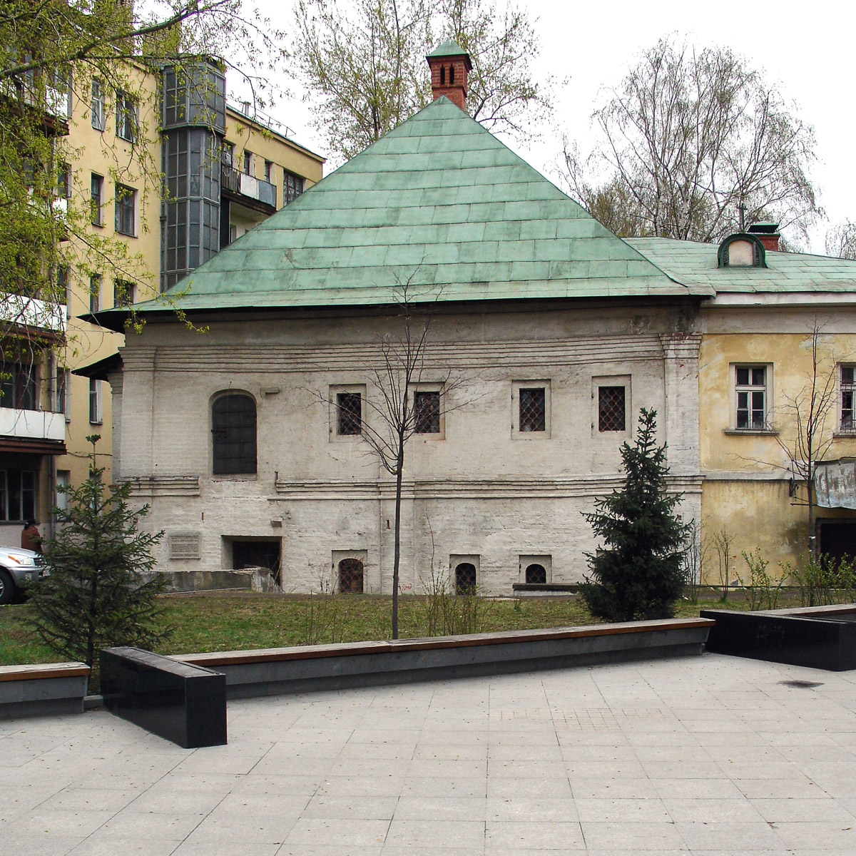 Zamoskvorechye, Moscow. Sredny Ovchinnikovsky Lane.